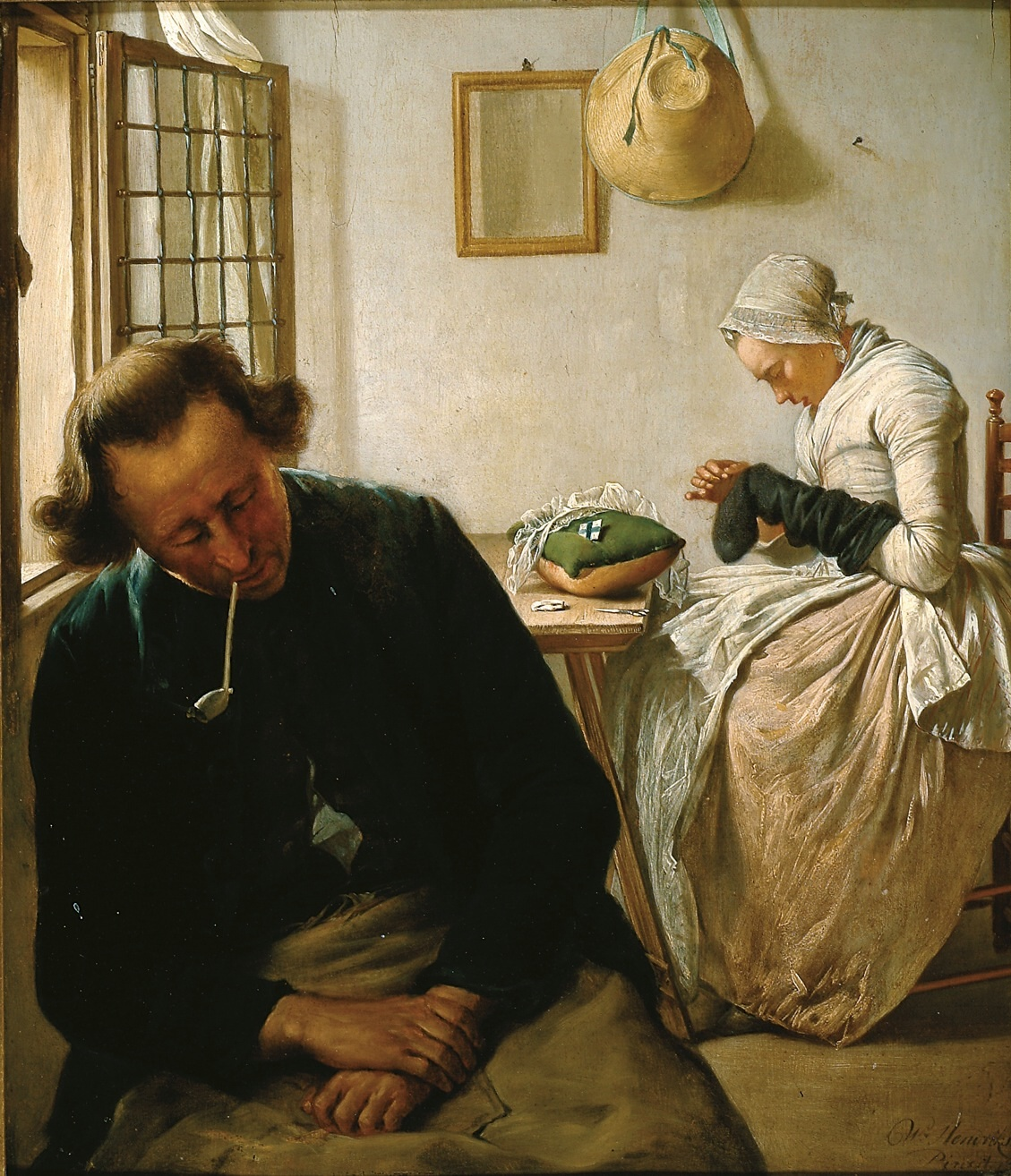 Interieur met slapende man en kousen stoppende man